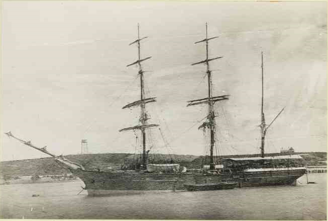 The composite ship 'City of Adelaide', 791 tons, after being reduced to a barque. ON50036, 176.8 x 33.2 x 18.8. Built 1864 (5). W. Pile and Co. Sunderland. Owners: Devitt and Moore, registered London. Usually employed in the South Australian trades and often loaded wool at Port Augusta. Became a Royal Naval hospital hulk, later an accommodation ship and was renamed Carrick from at least 1925. Given by the Royal Navy for use as a club ship by RNR and berthed in Scotland. See Ships of the Royal Navy, Vol. 1 JJ Colledge, David and Charles, 1969. This image has been digitised by the State Library of South Australia from the A.D. Edwardes Collection of about 8,000 photographs, mostly of sailing ships from around the world, taken between about 1865 and 1920. Mounted in 91 albums, the photographs are arranged by country of ownership, with some special volumes such as 'Shipping at Port Adelaide' and 'South Australian outports'. Additional information, giving the history of the ships where known, has been provided by maritime historian, Ron Parsons.